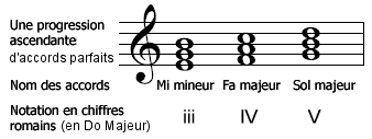 Diagram of a musical chord progression.